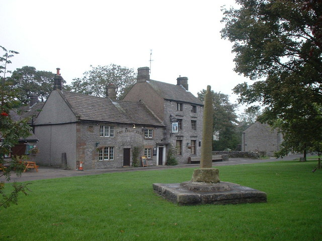 Bull's Head Hotel at Monyash A friendly community pub with a good choice of real ales.